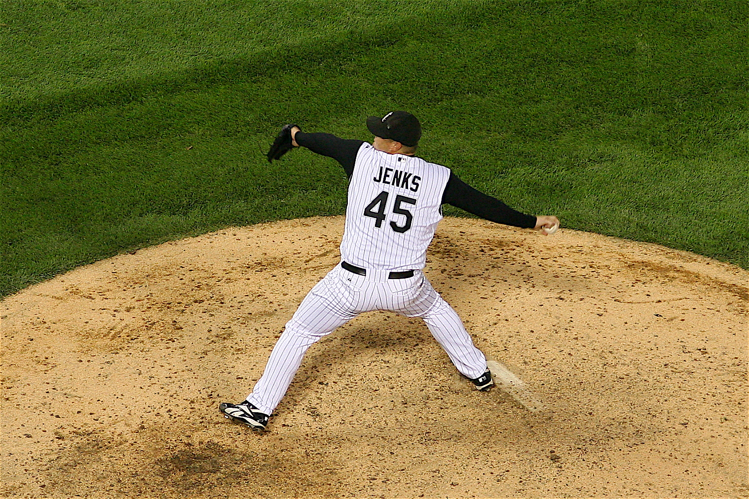 Bobby Jenks, Major League Baseball relief pitcher for the Chicago White Sox.